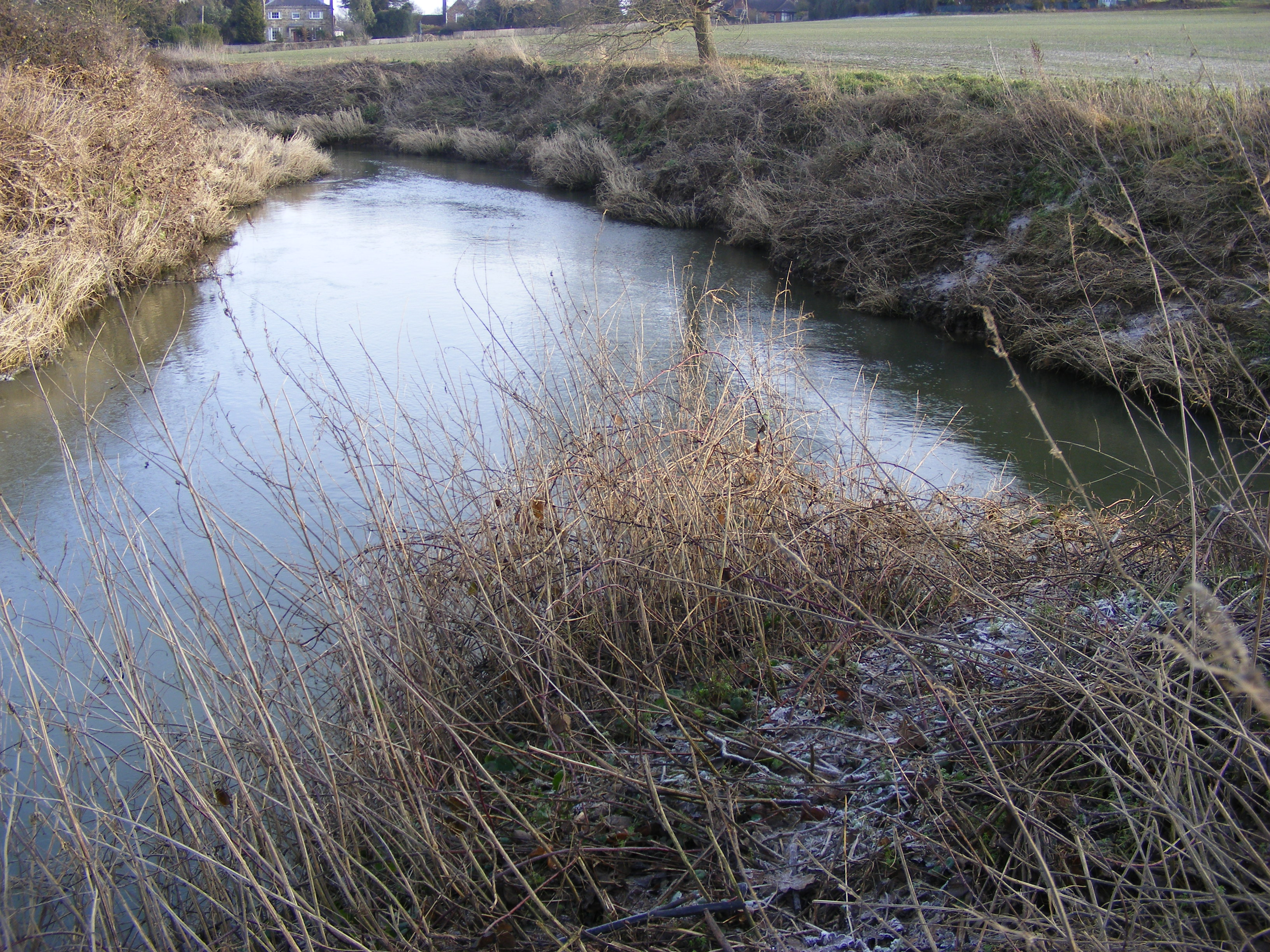 The River Eden joining the River Medway in Penshurst, Kent.